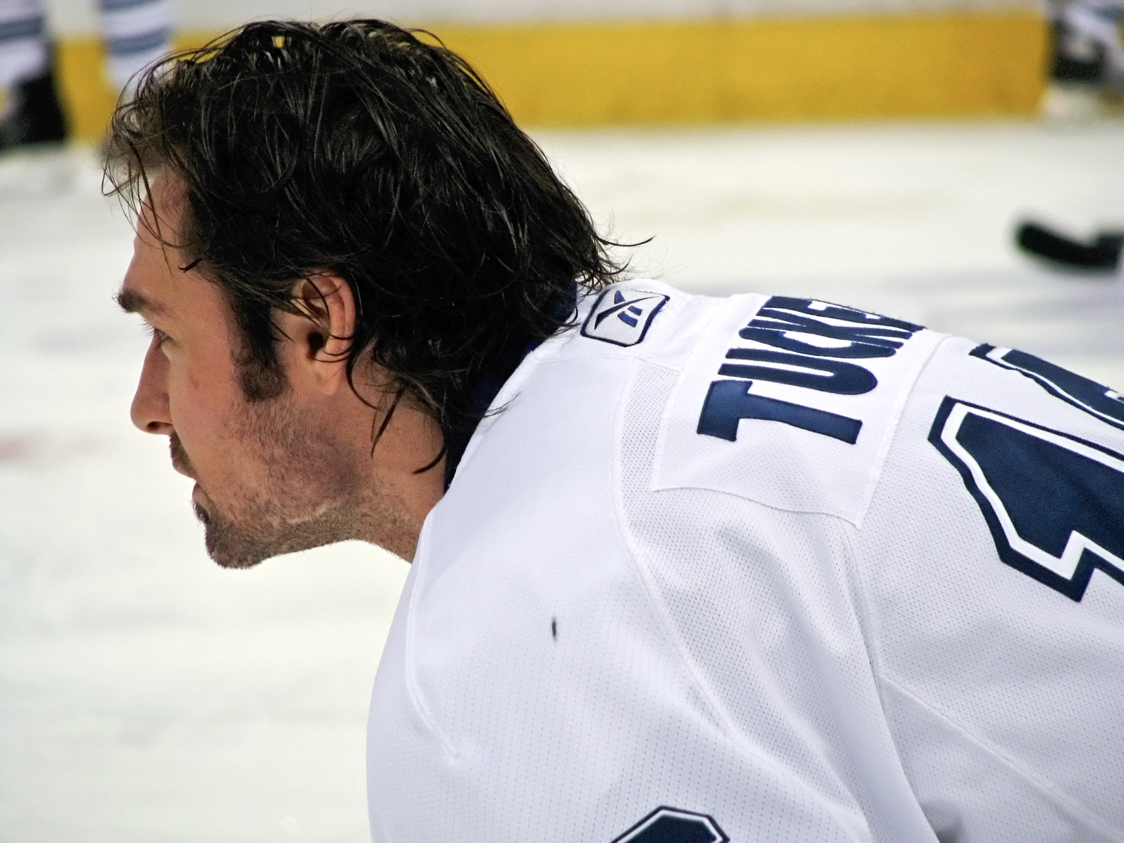 Darcy Tucker in a 2008 game for the Toronto Maple Leafs.